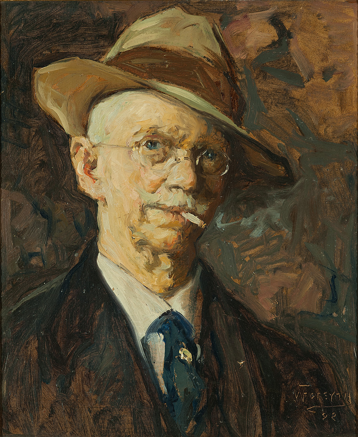 William J. Forsyth (1854–1935)